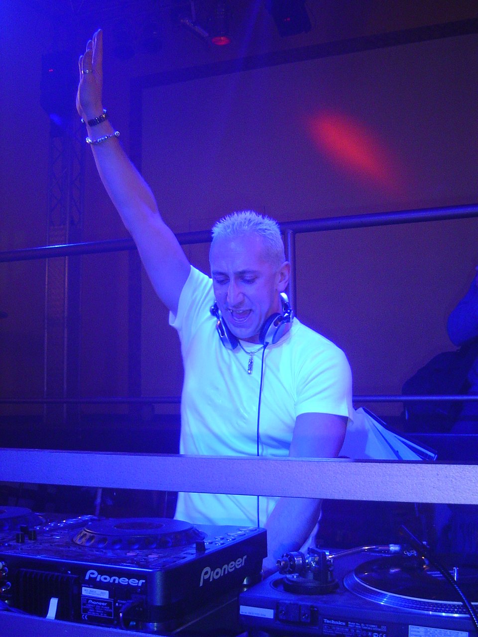 Johan Gielen, Belgian DJ performing at Asta dance theatre in The Hague.